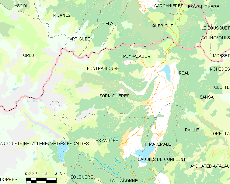 Map of French municipality